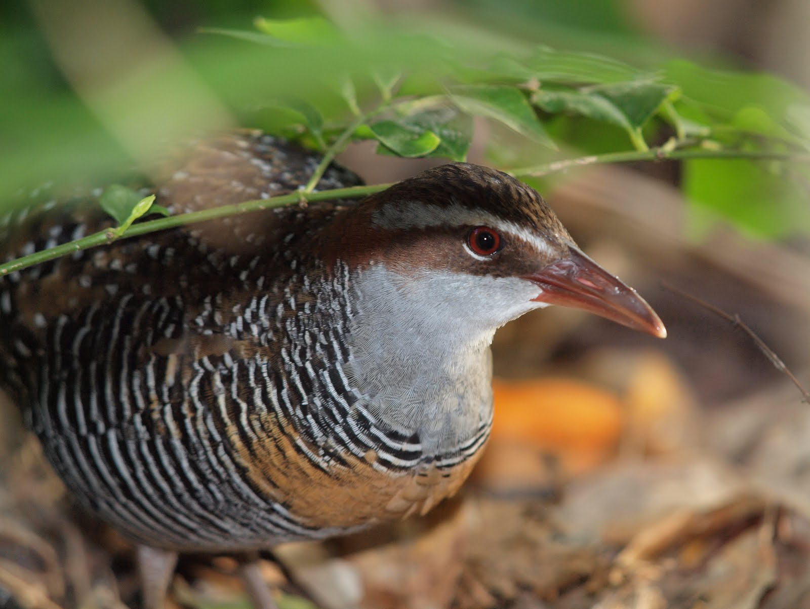 A Buff-banded Rail at Green Island National Park, Green Island, Queensland, Australia.